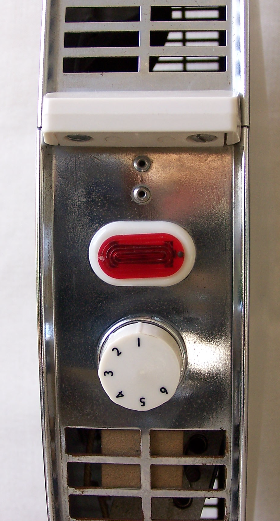 Right-hand control panel of the Spacemaster convector-reflector heater showing pilot light and thermostat control.